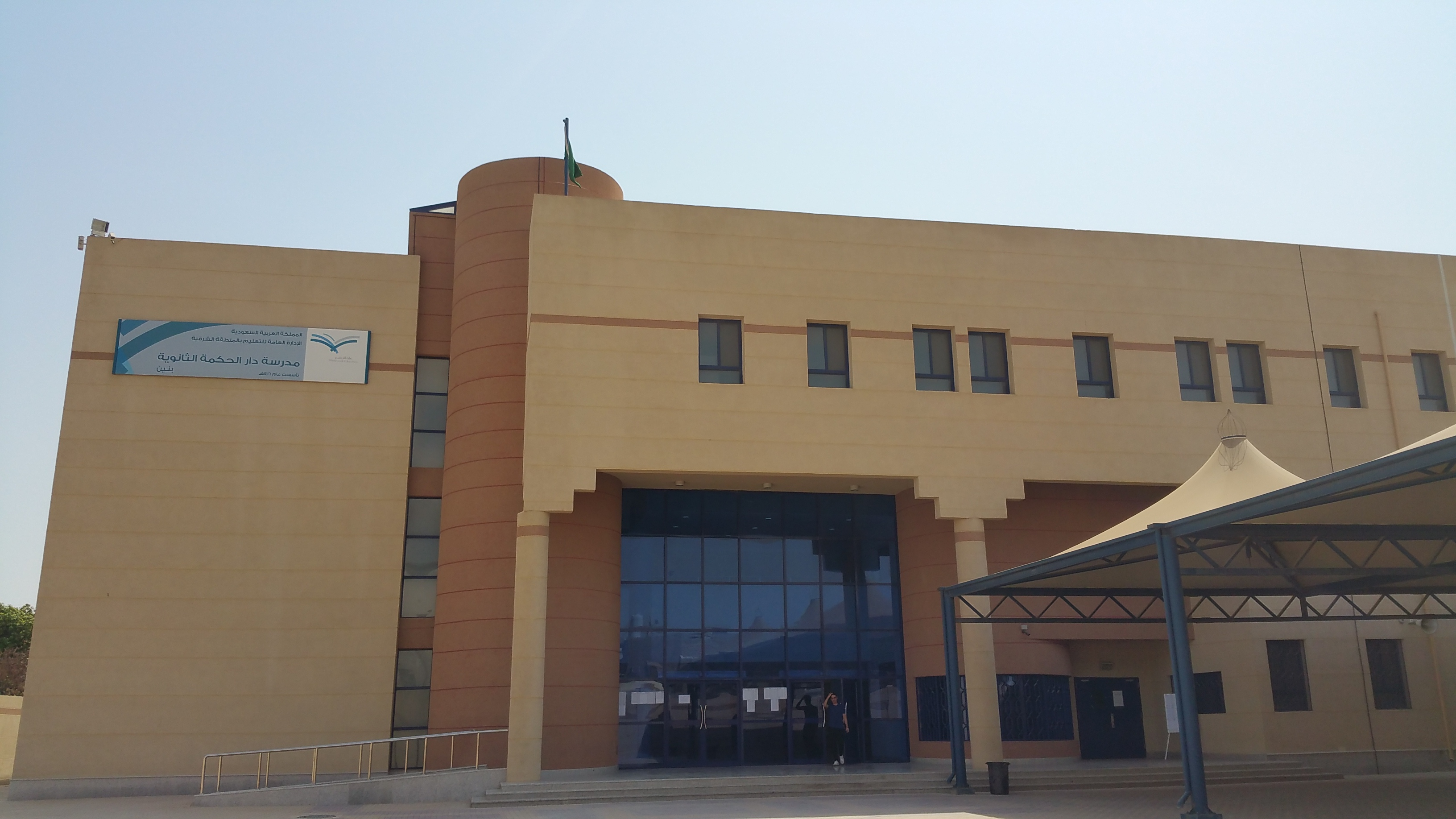 High school in Saudi Arabia, Qatif.